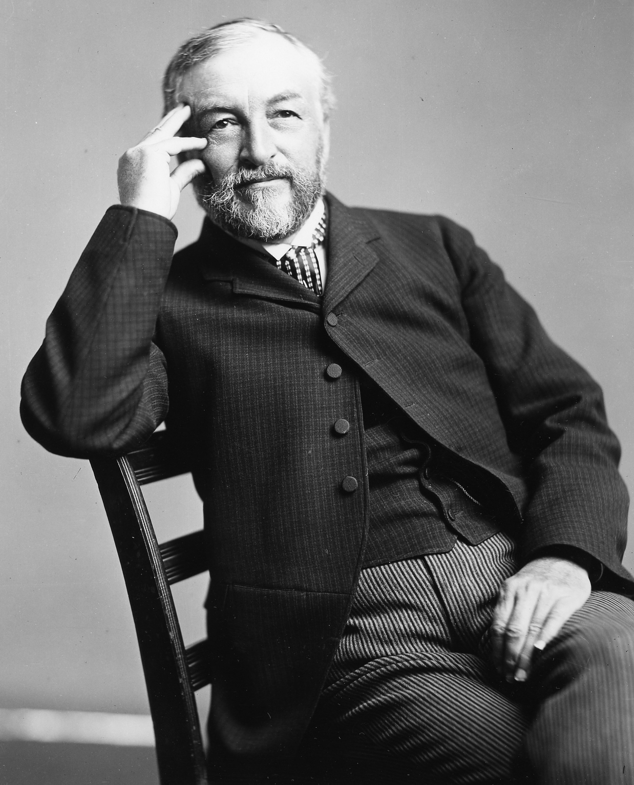 Samuel Pierpont Langley, pioneer aviator and 3rd Secretary of the Smithsonian Institute. taken during his tenure at the Smithsonian (1887-1906), and credited to him. It is in the public domain as produced by the United States Government, and also because published before 1923.